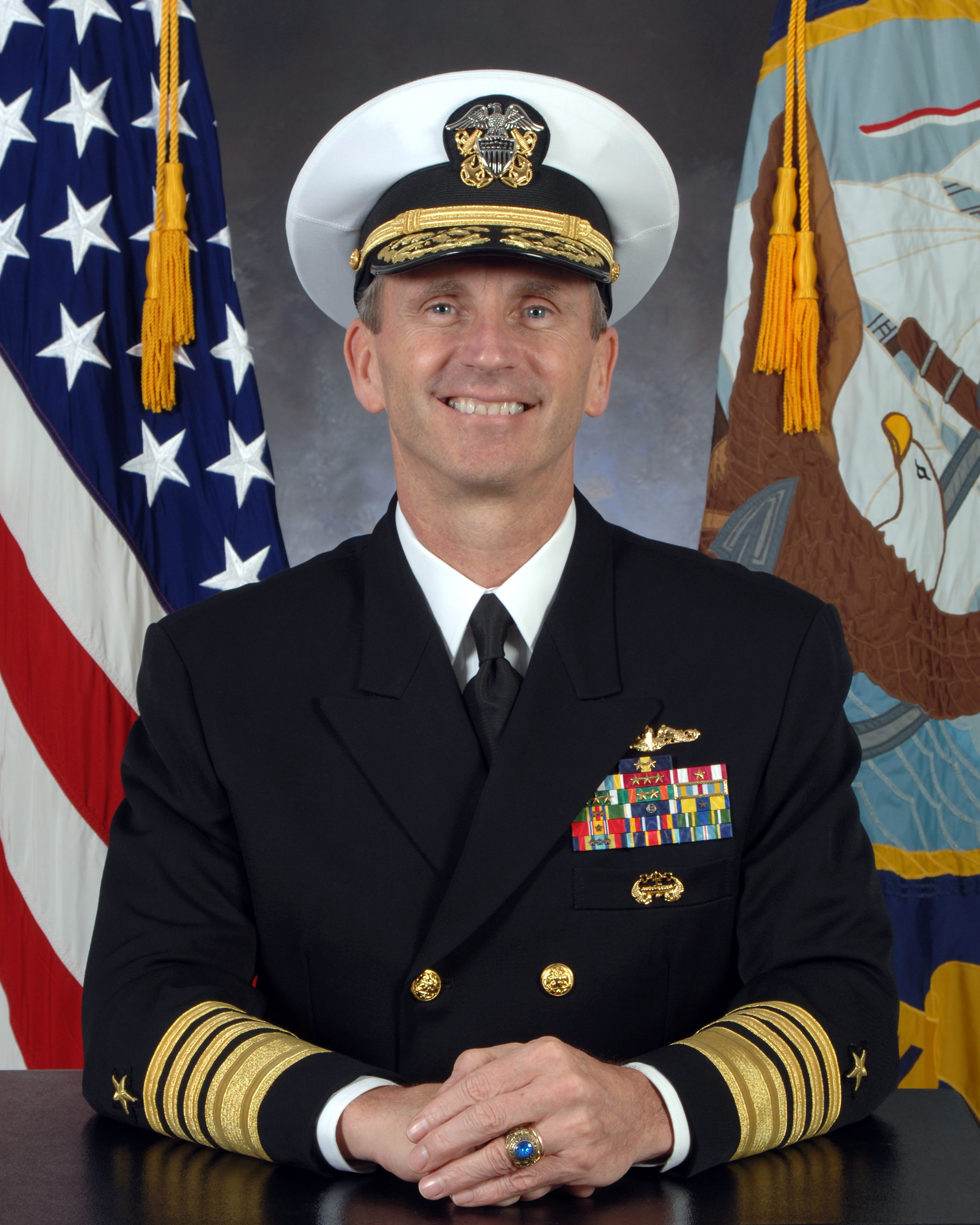 Admiral Jonathan W. Greenert, US Navy